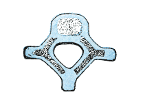 Ossification of a vertebra.